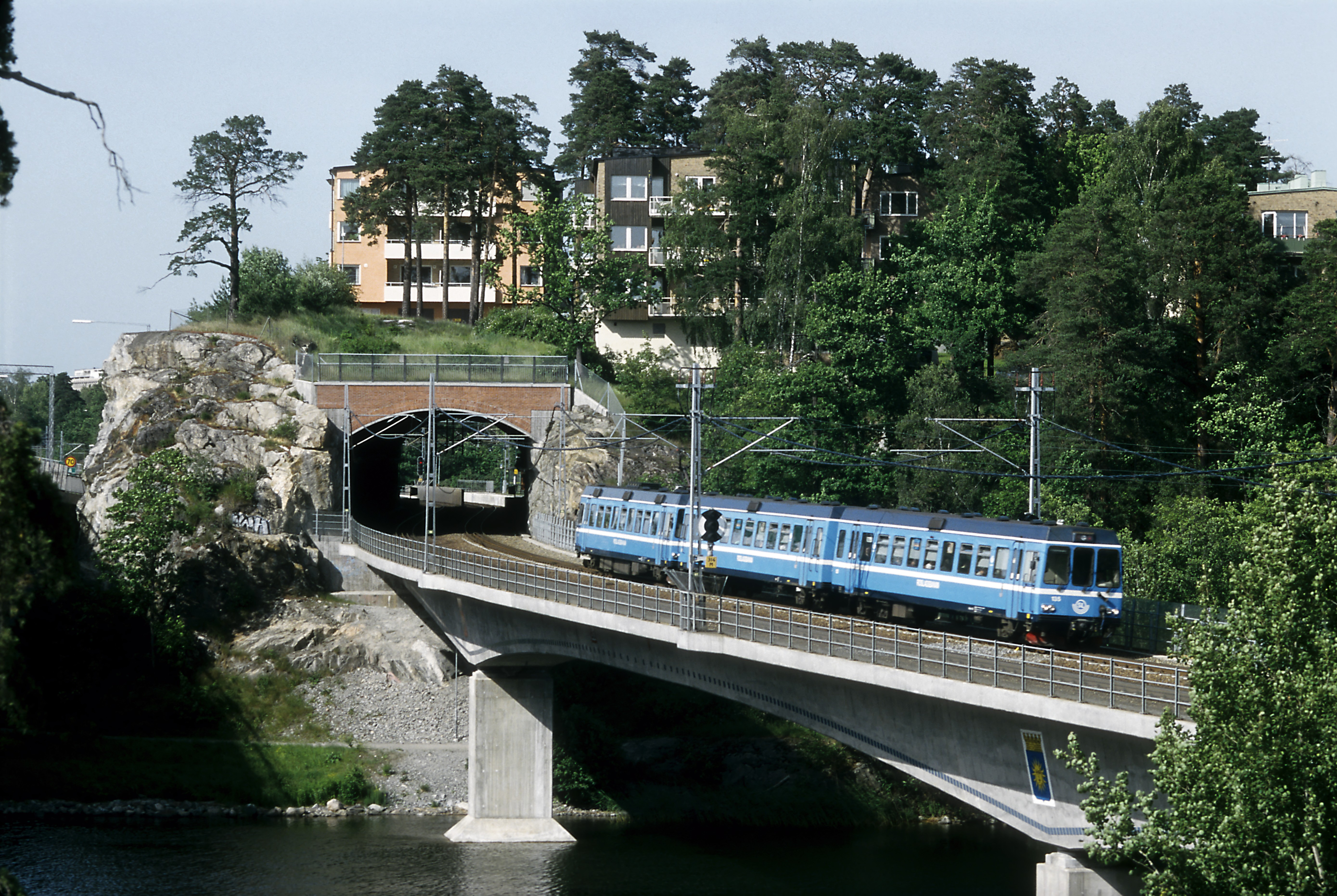 New routing for full double track traffic. The land ownership definition for the house on the hill might be interesting.